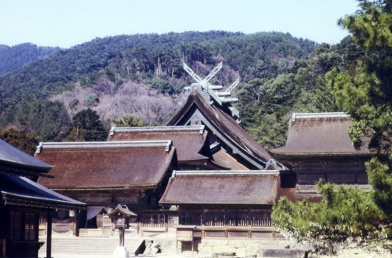 Izumo taisha, 1744, general view